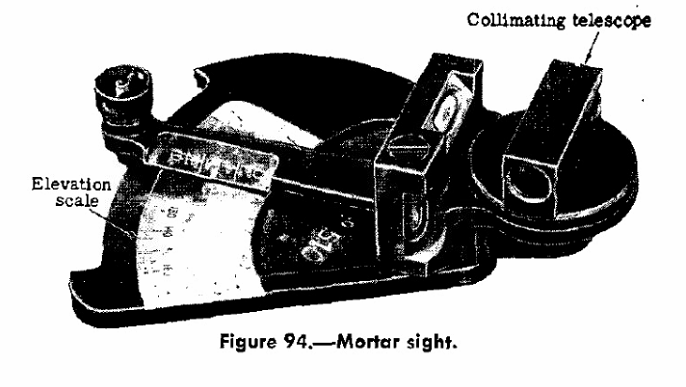 sight of Type 99 81 mm mortar